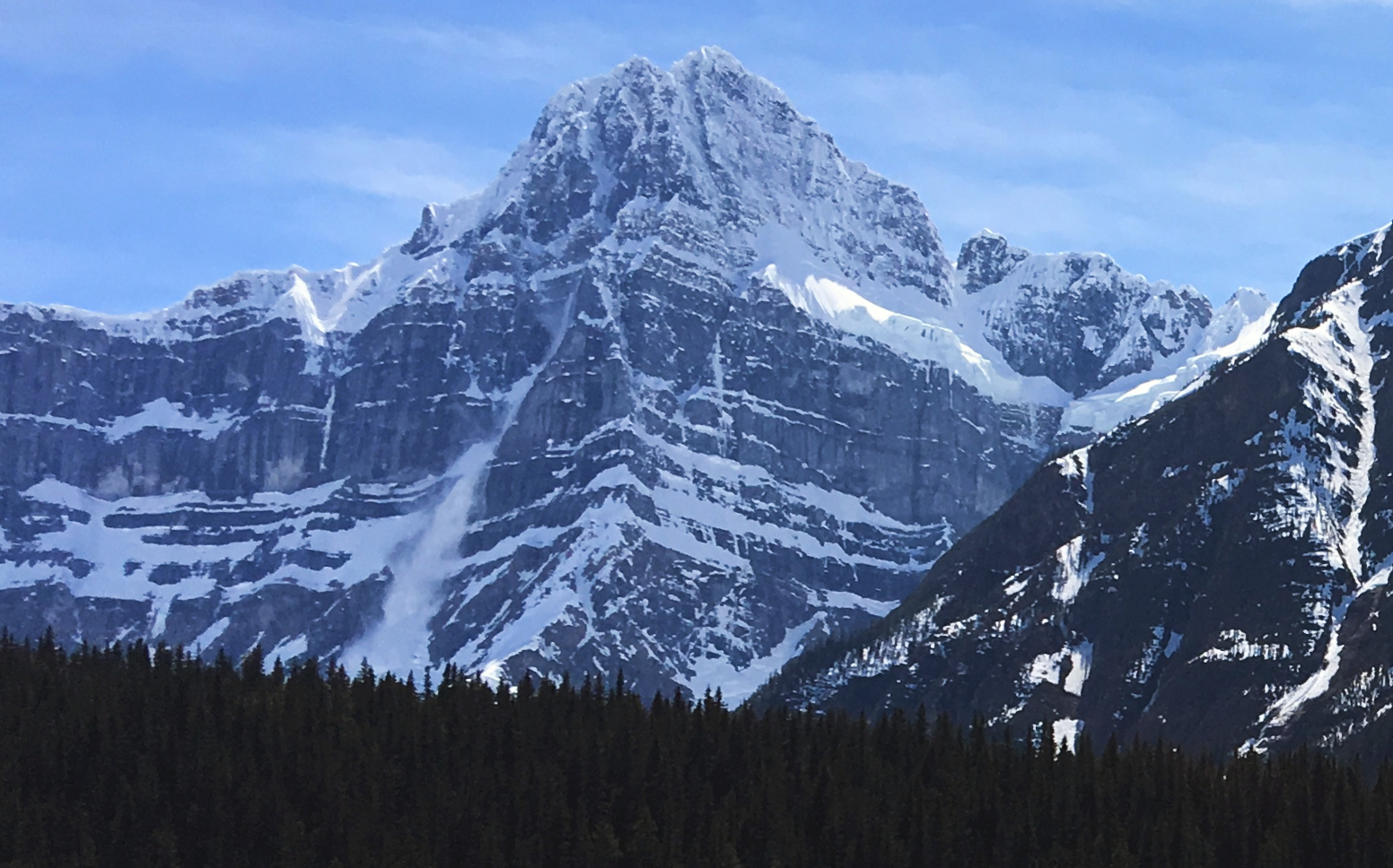 Howse Peak in Banff National Park, Canada